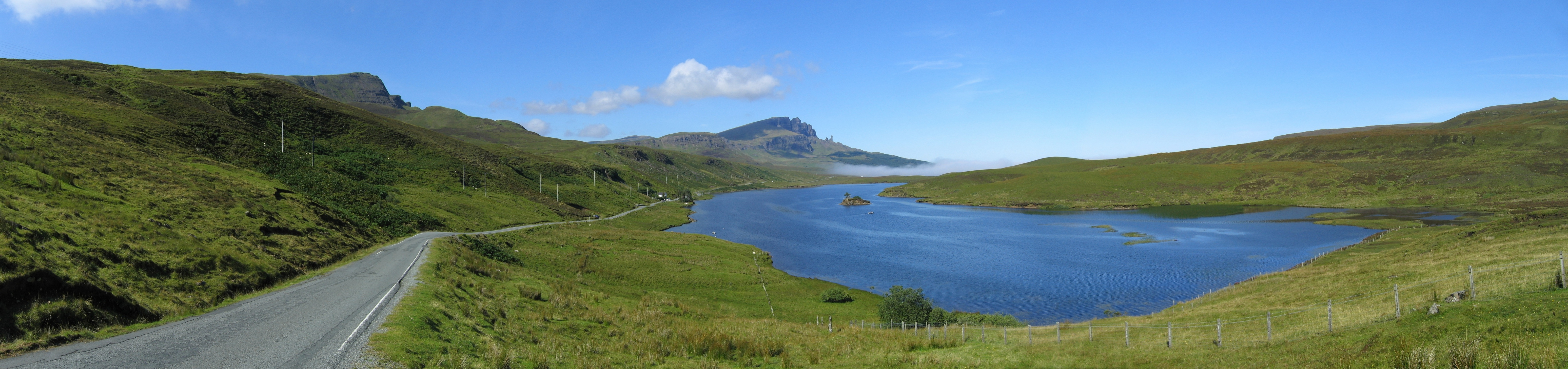 Loch Fada on Skye with the Storr and the pinnacle of the Old Man of Storr in the background. Scotland, United Kingdom.